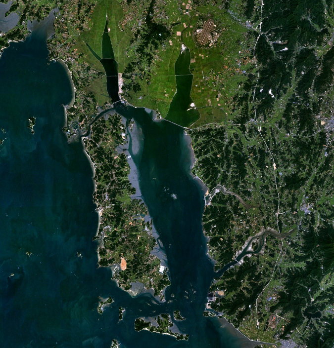 Anmyeon Island, South Korea